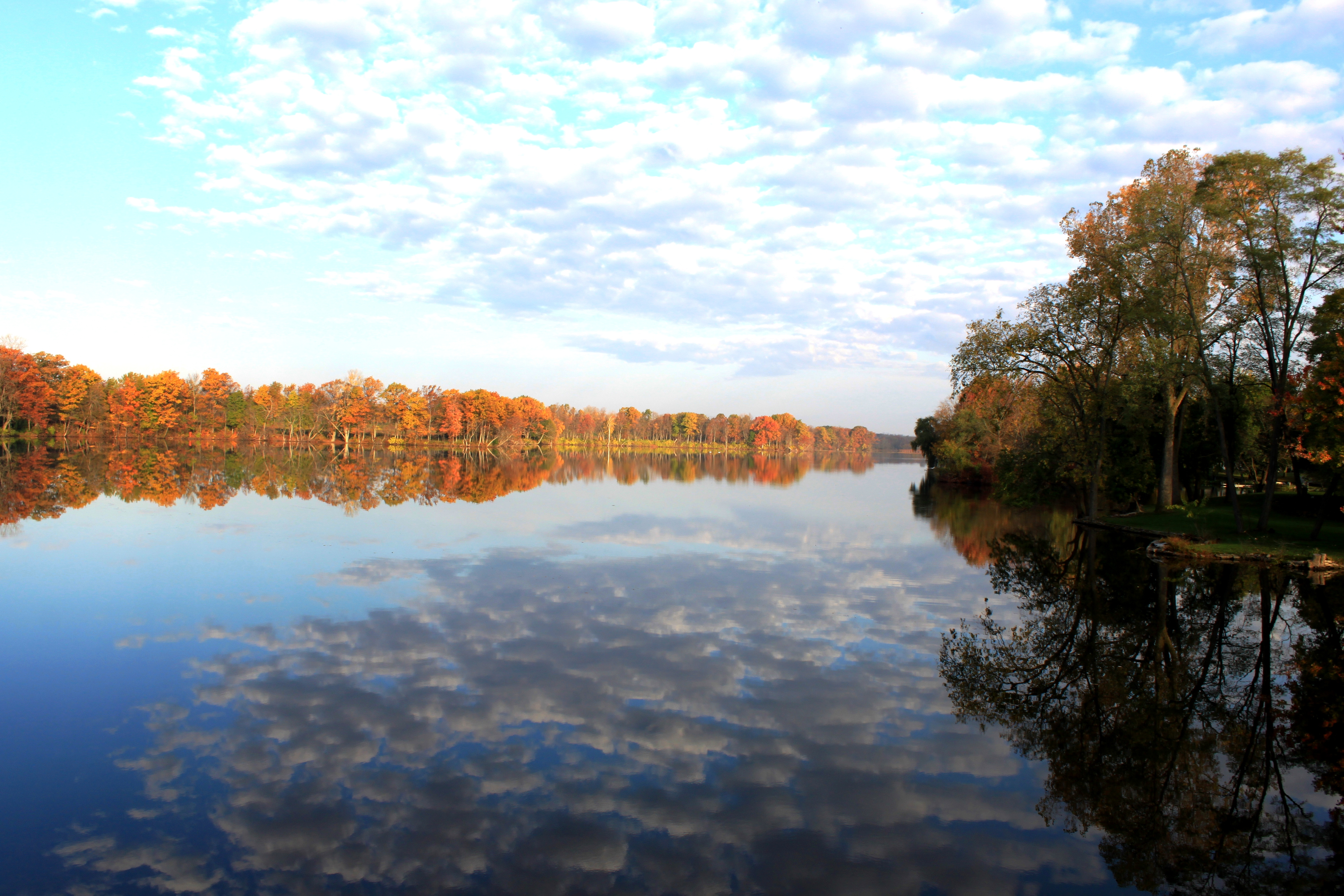 Red Millpond, River Raisin, North Evans Street, Tecumseh, Michigan